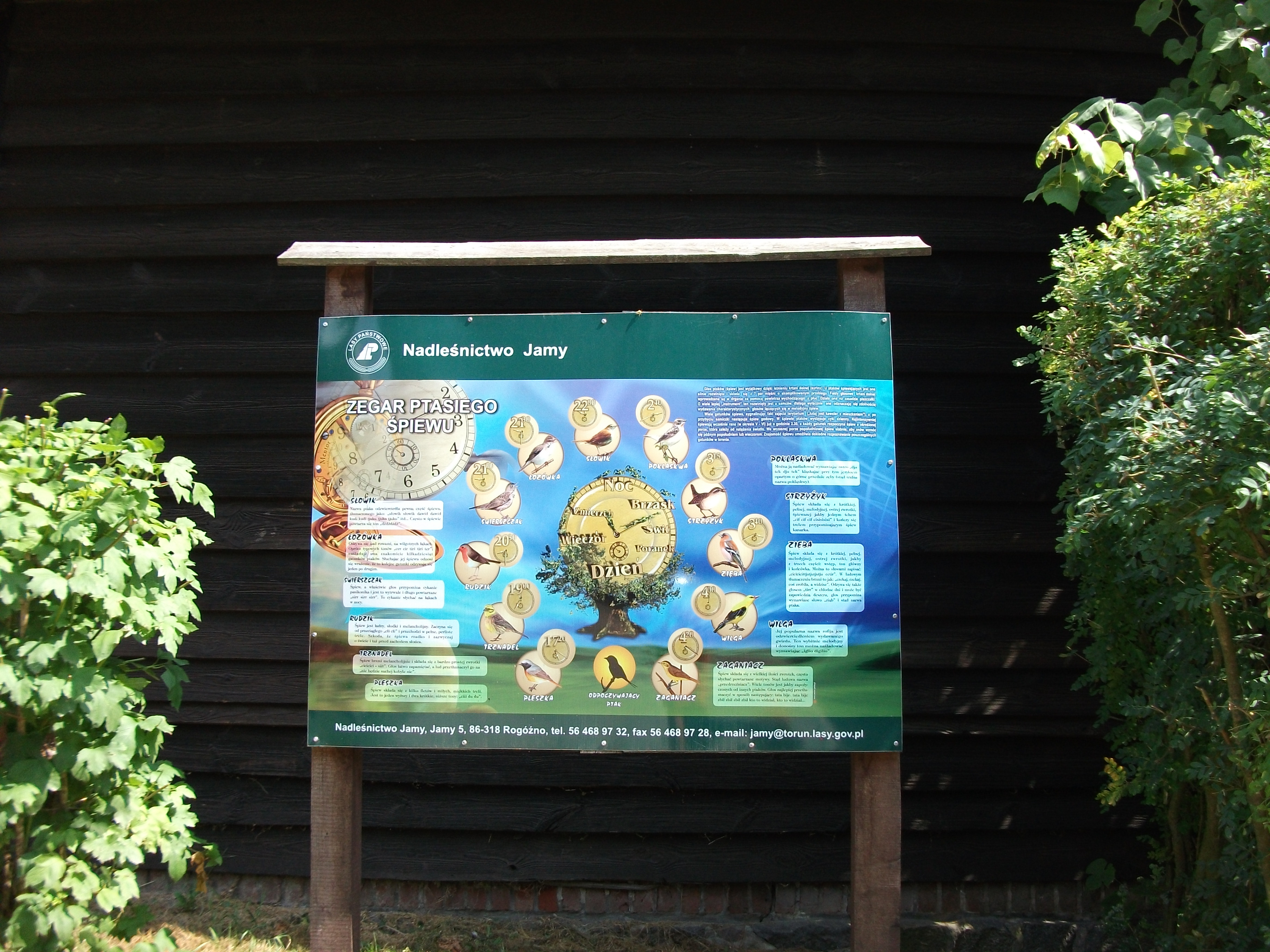 Zwierzyniec, Grudziądz county